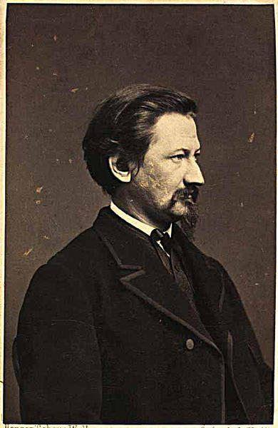 Siohus Schandorph photographed by Hansen, Schou & Weller